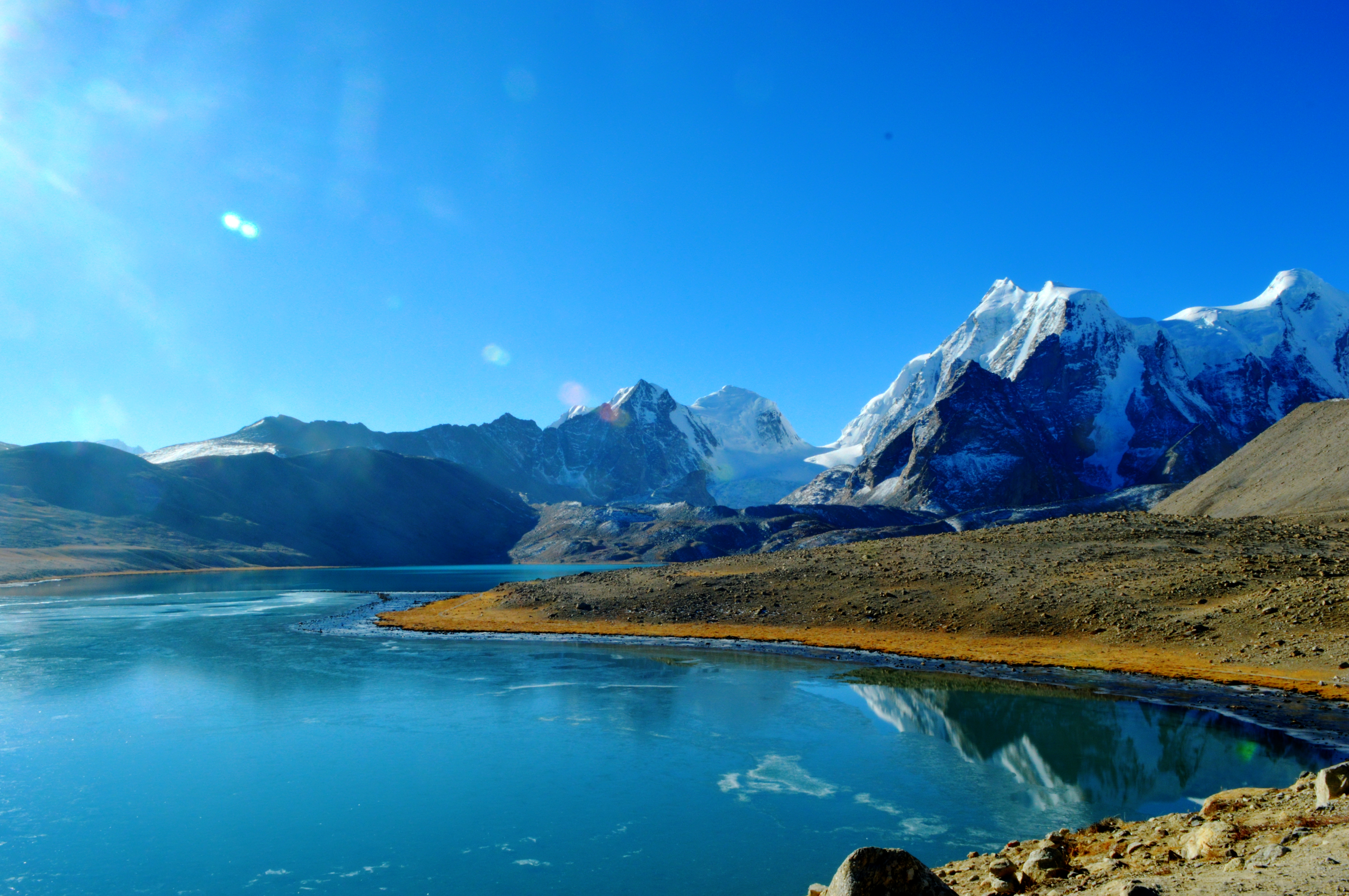 I took multiple shots of this lake with my nikon d3200. The images were under exposed, normal and over exposed, so I used the photomatrix pro to merge them and here is the final image.